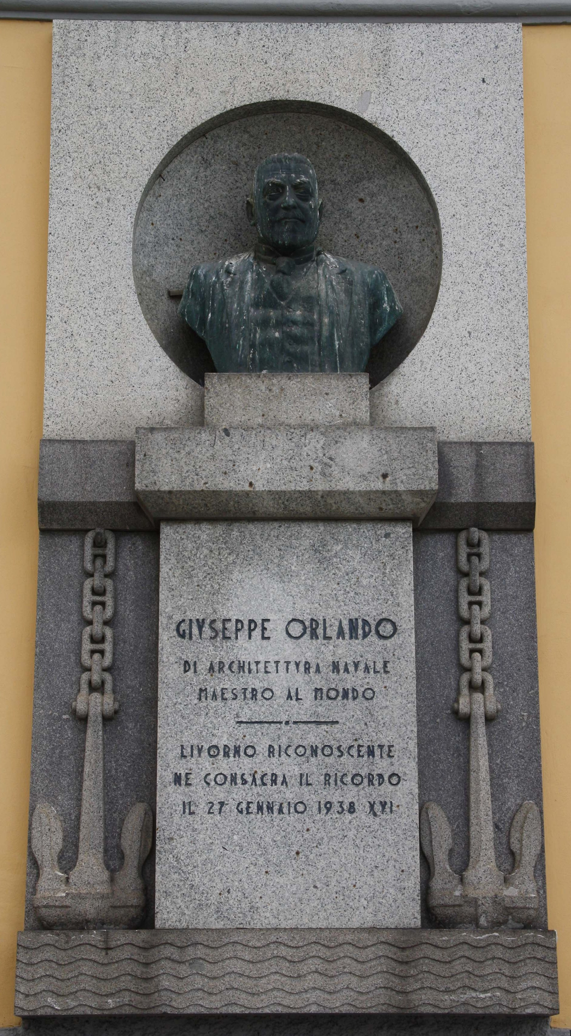 Italy, Livorno, Scali Novi Lena. The monument in memory of Giuseppe Orlando, the naval architect who directed with his brother Luigi the Orlando shipyard.